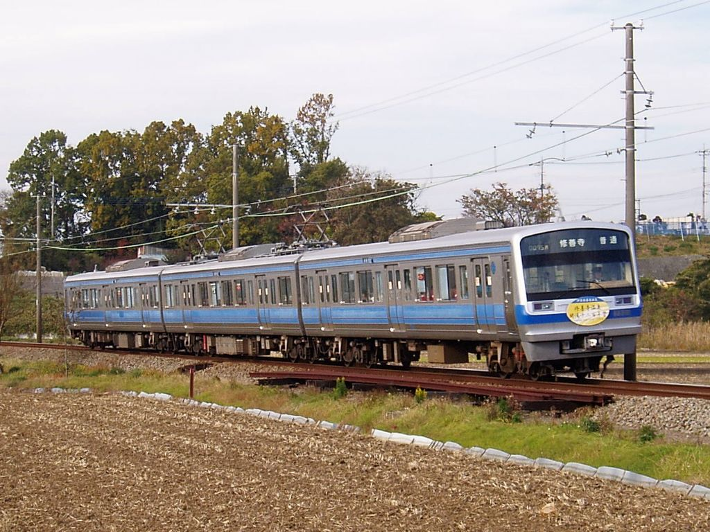 EMU Type 7000,Isuhakone Railway at between Mishima-Futsukamachi Sta. and Daiba Sta.